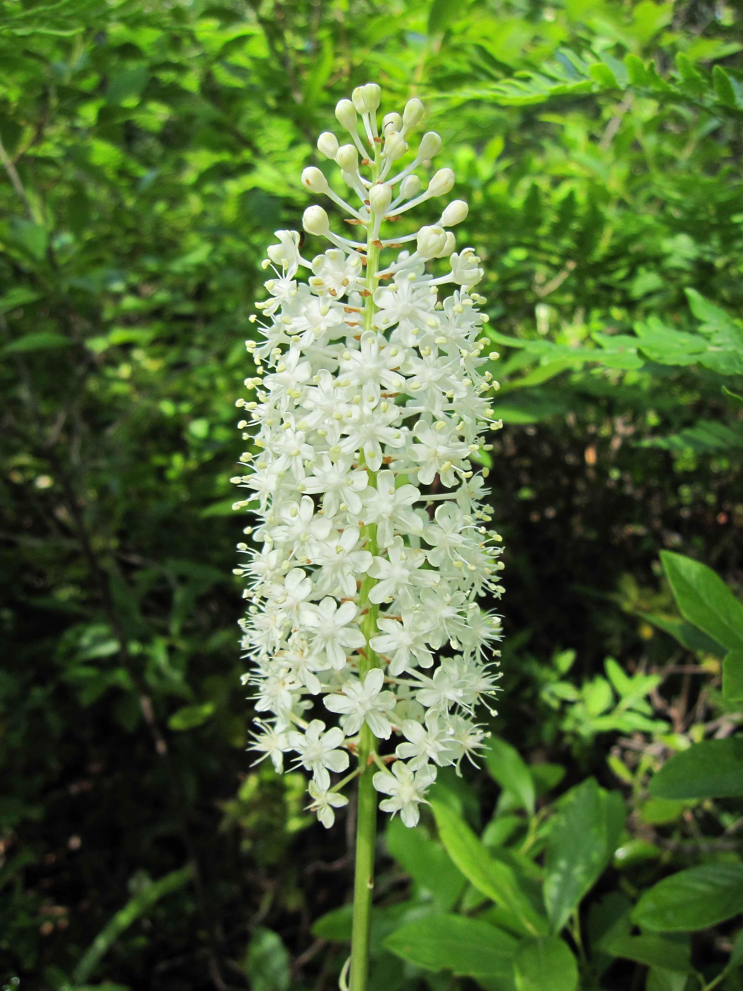 Amianthium muscitoxicum, Lackawanna State Forest, Thornhurst, Pennsylvania, USA.